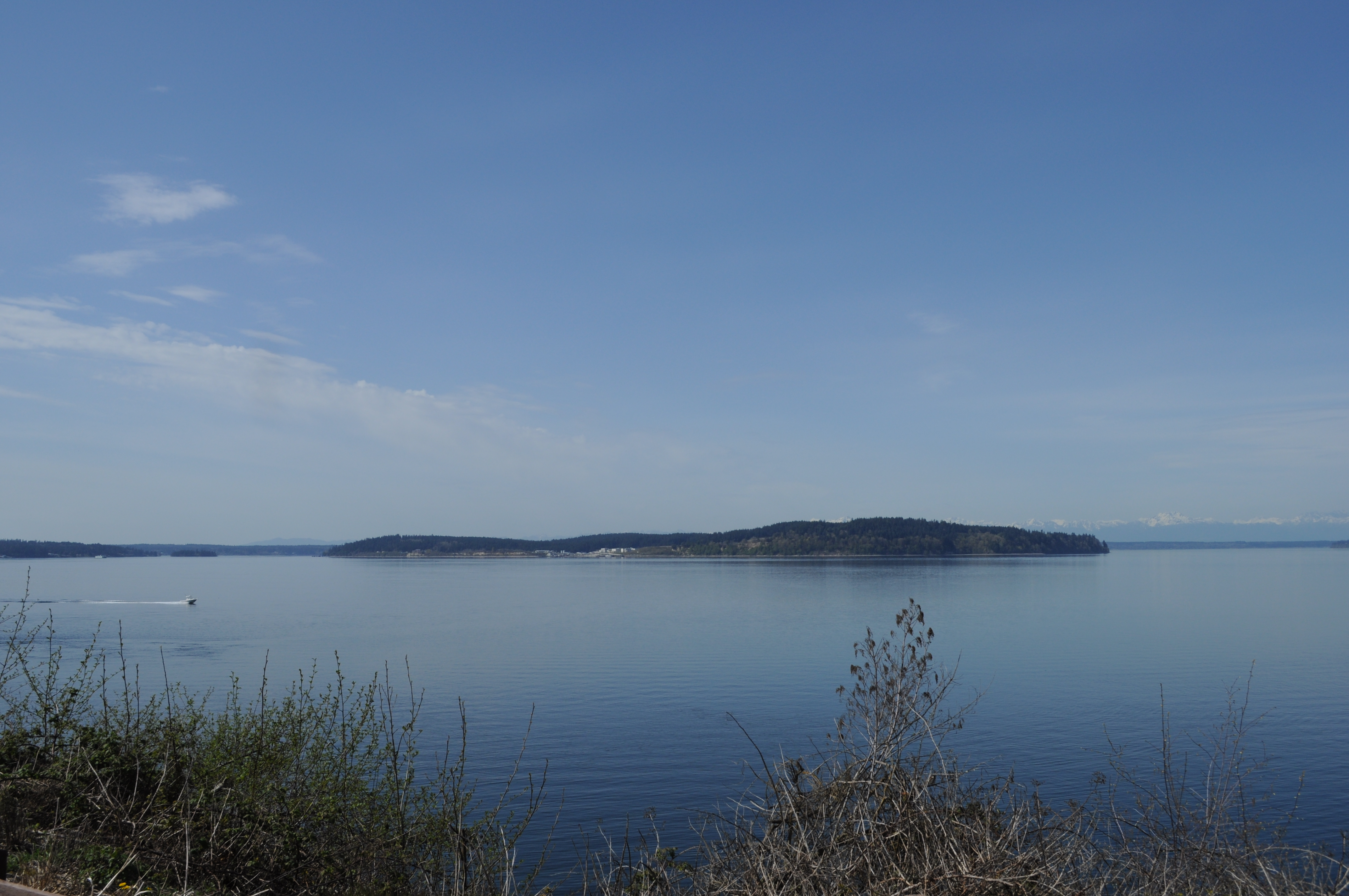 Looking slightly west of north toward McNeil Island from Steilacoom, Washington.